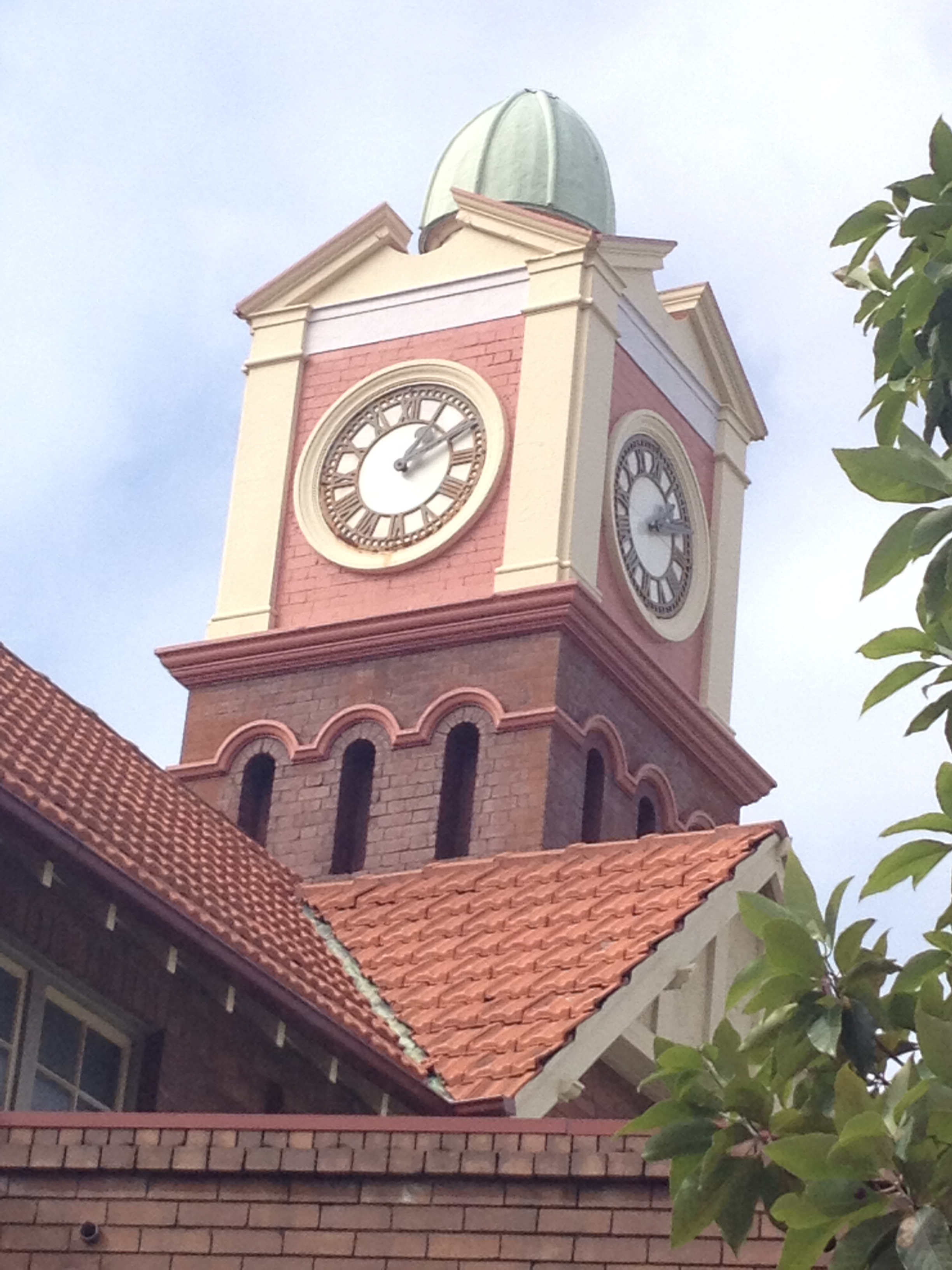 Tower of the RAS Council Stand at the Moore Park show grounds, Sydney.